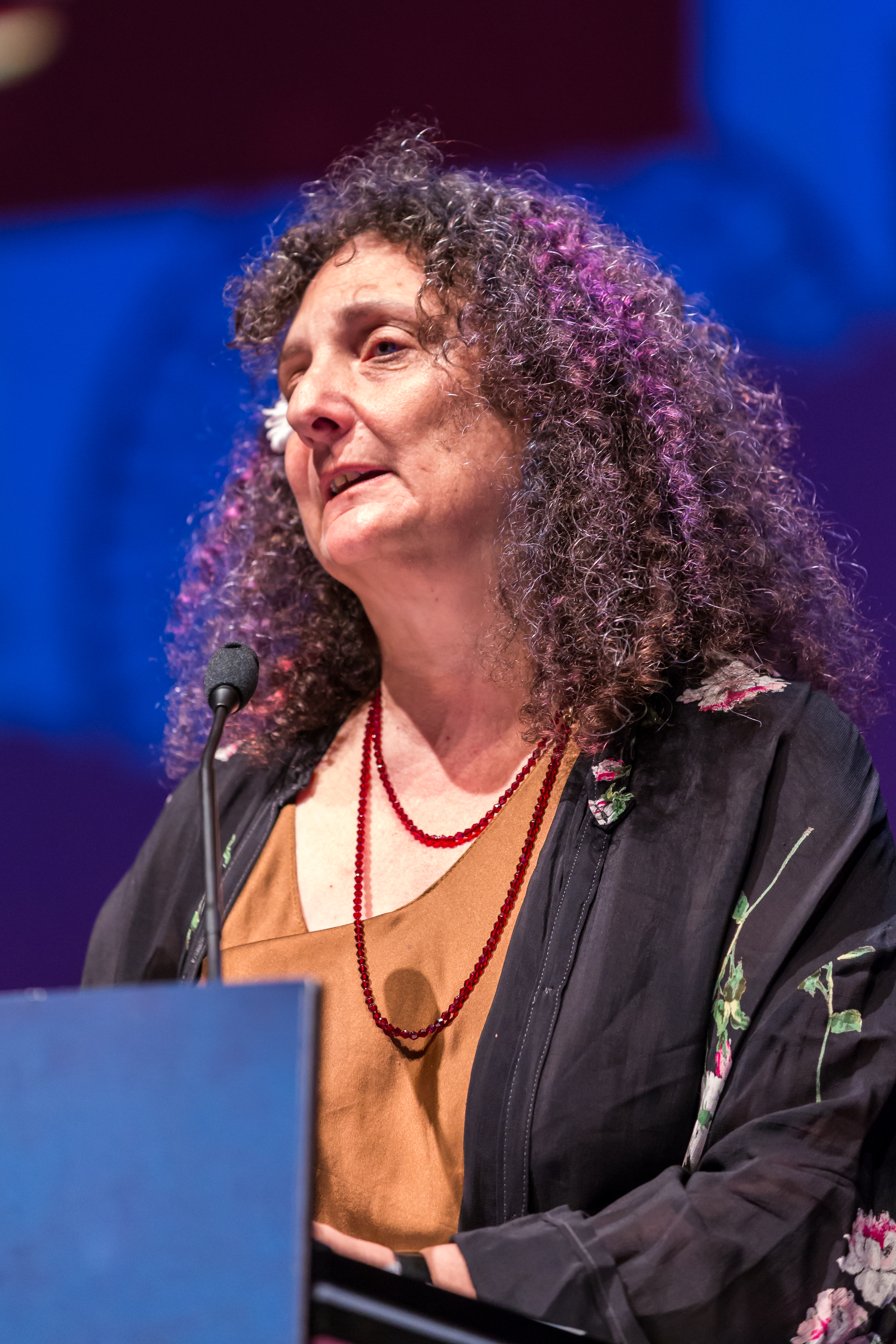 Ellen Datlow at the Hugo Awards Ceremony, Worldcon, Helsinki.